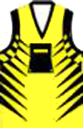 Aussie rules jumper, gold with black bushranger logo and black side flashes.